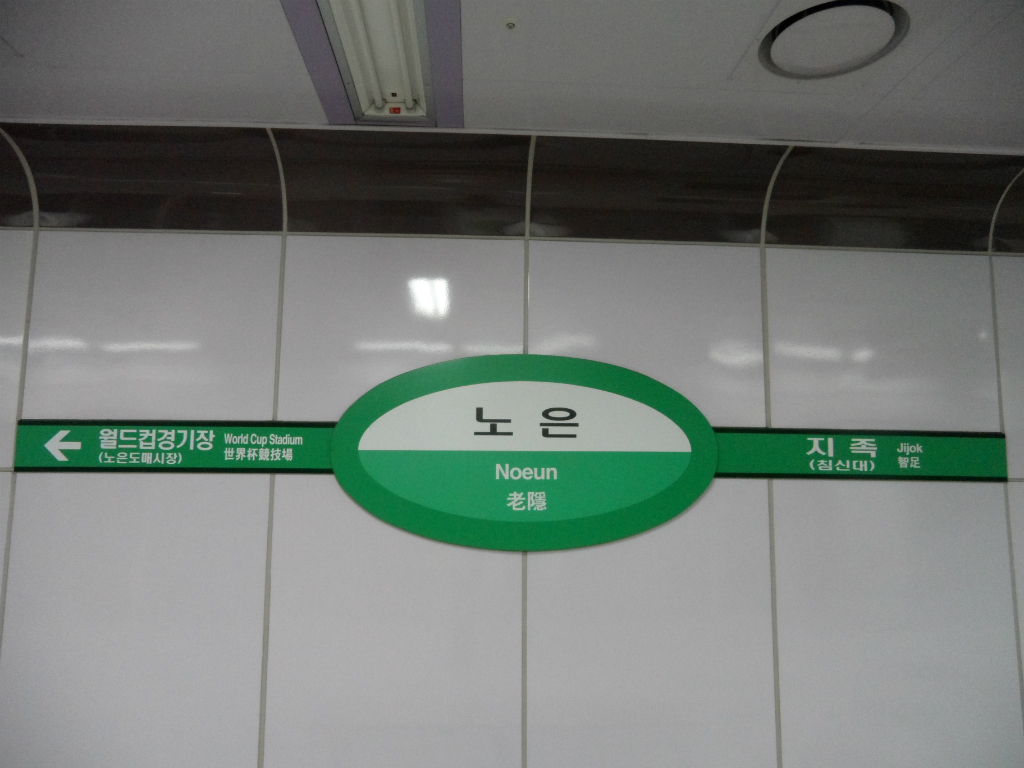 Noeun Station's nameplate